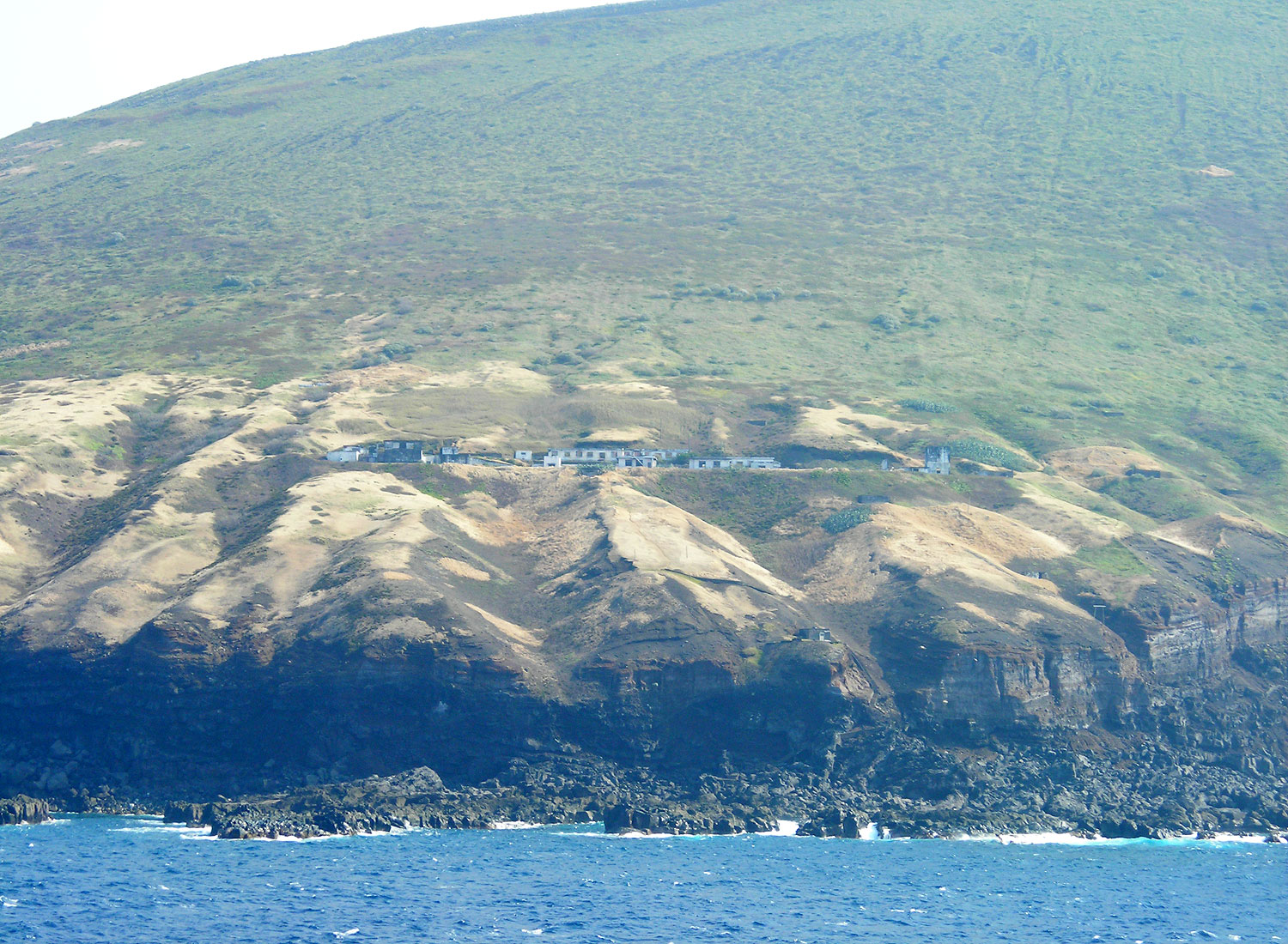 View of Torishima, Izu Islands, Japan.